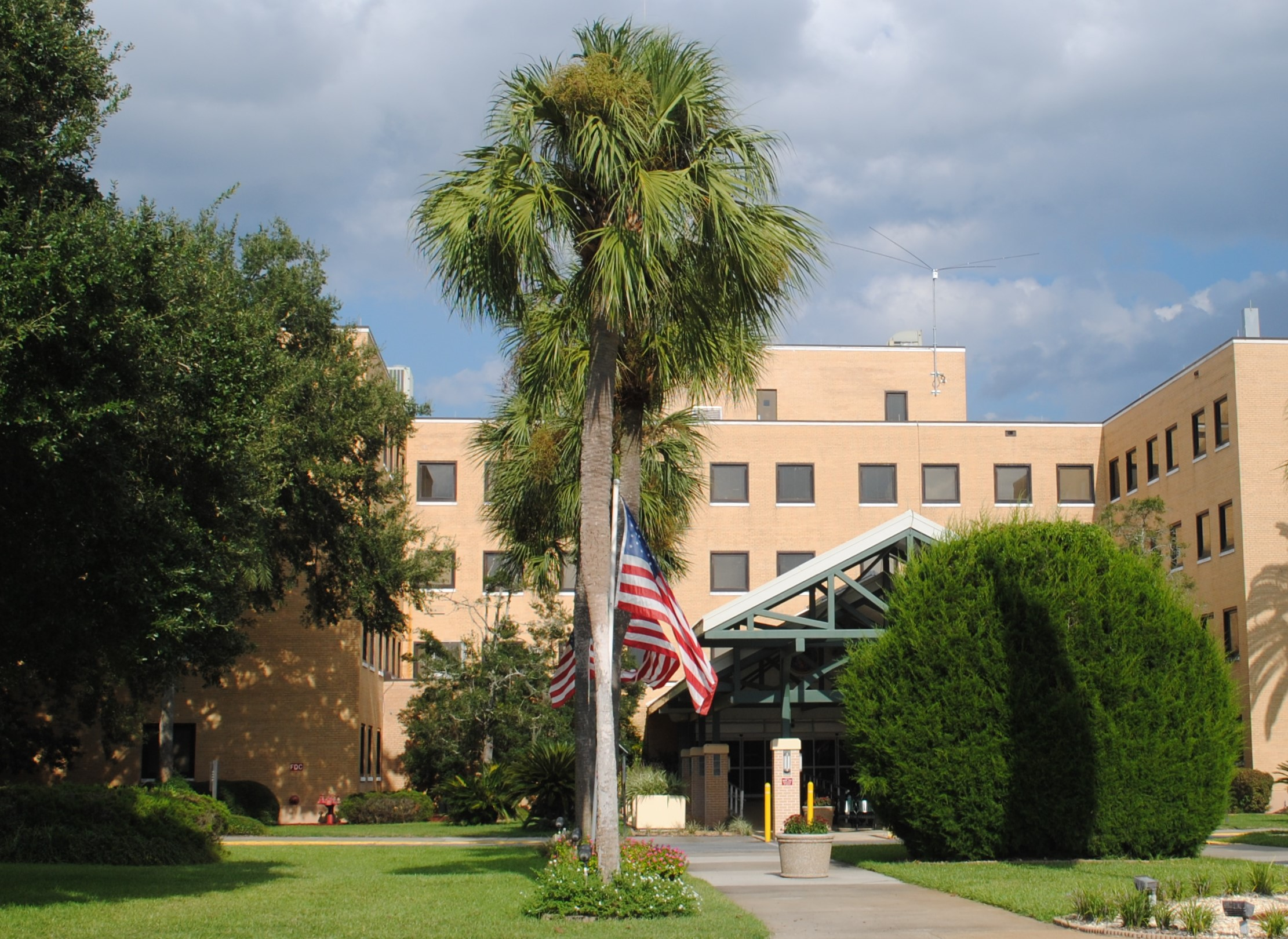 VA Hospital in Lake City, Florida